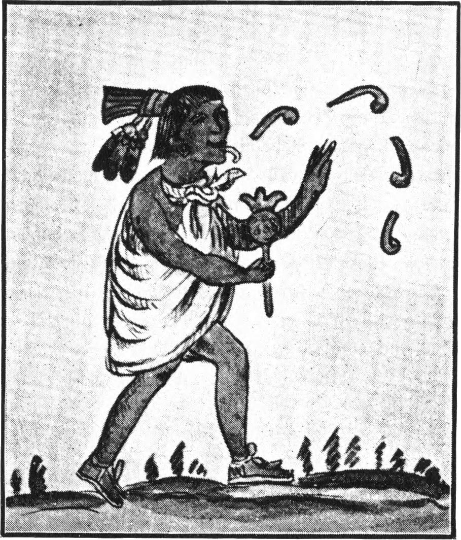 Atlaua